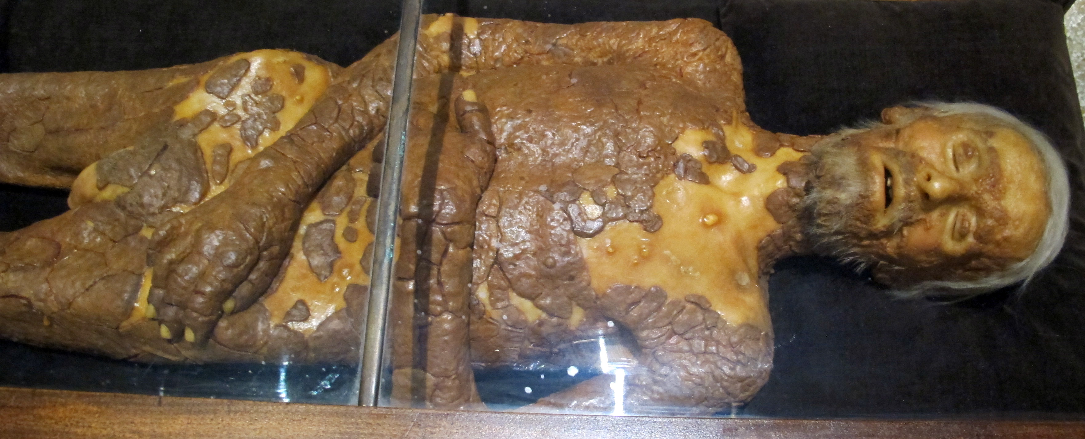 Leprosy